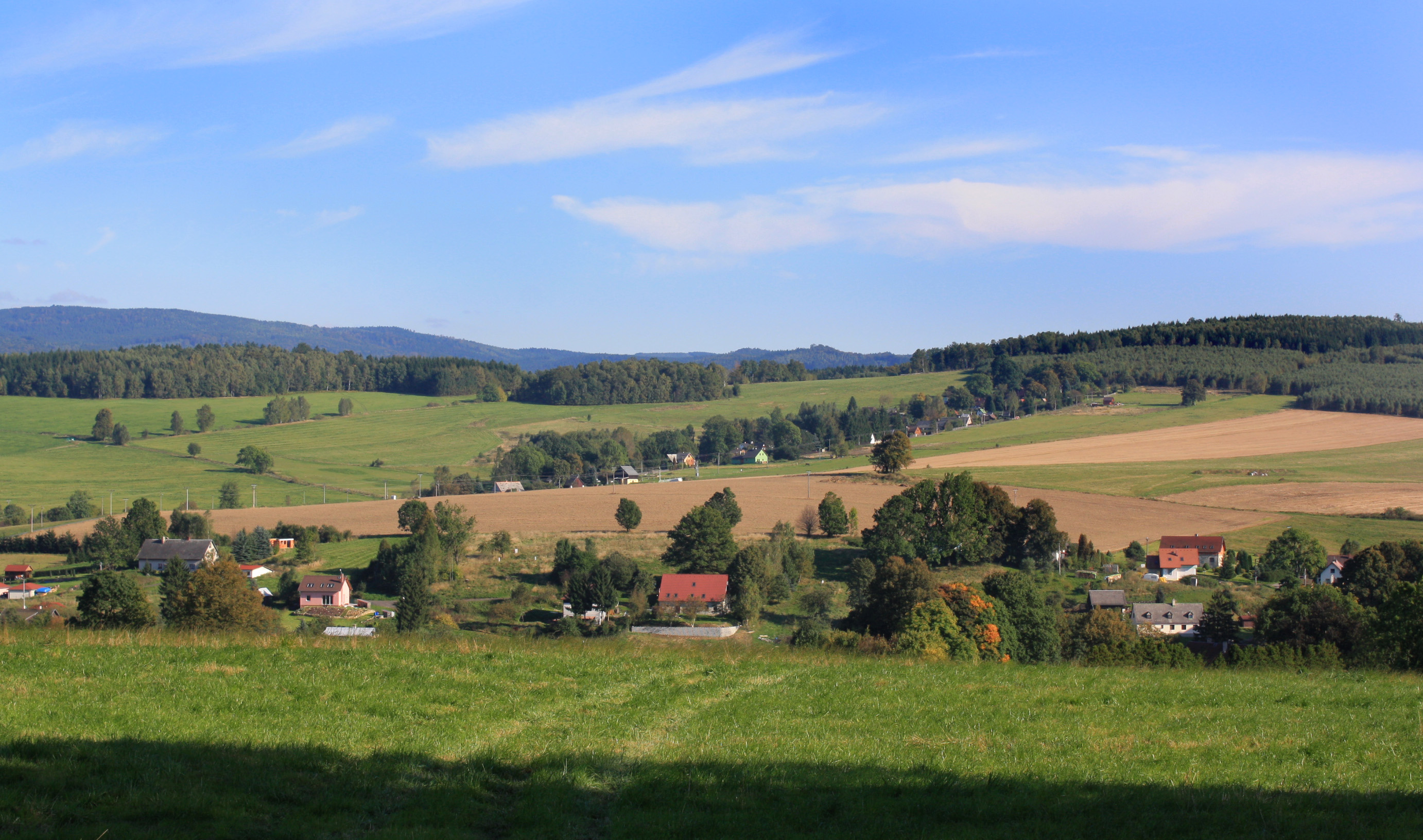 View from Růžek to Nová Ves, Czech Republic